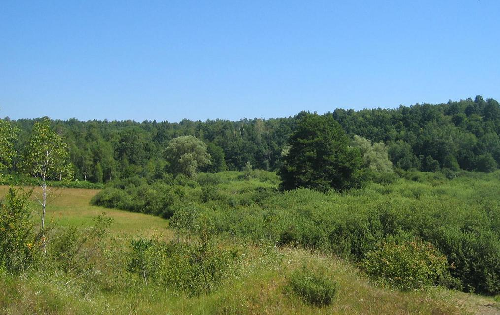 Mlaka marsh at Lahinja river spring. (Landscape park in Slovenia) photo:Ziga 13:23, 13 August 2006 (UTC)